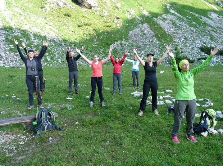 Vocal Exercises: TSIAO Sound (singing TAI TSIAO 6x, SHAO TSIAO. Photo has been taken near Vodnikova koča.